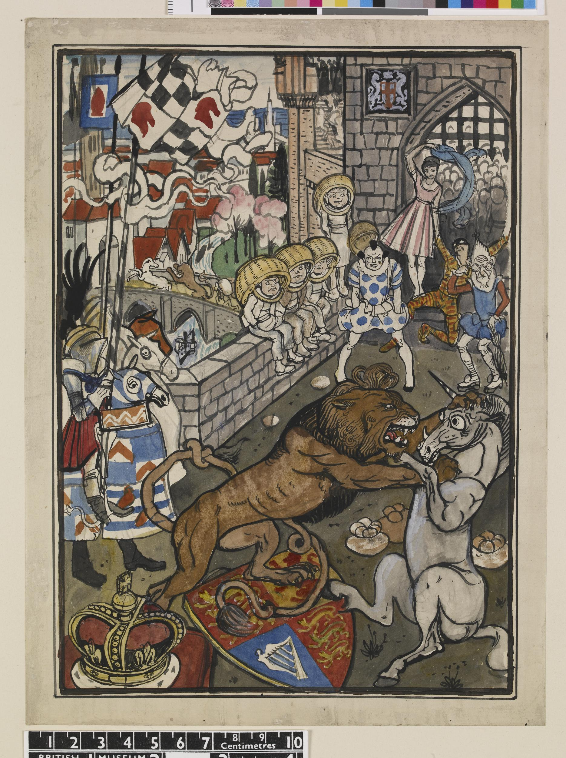 Lion and Unicorn